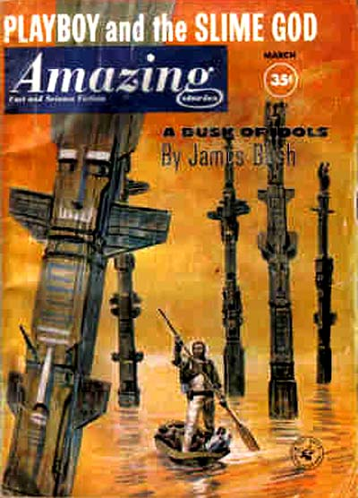 Amazing Stories, March 1961. Published by Ziff-Davis. Art by Leo Summers. Advertises Isaac Asimov humorous short story, illustrates James Blish story. Source is . Works copyrighted before 1964 had to have the copyright renewed sometime in the 28th year. If the copyright was not renewed the work is in the public domain. These records are in the online catalog found here: . The original copyright registration for the March 1961 issue of Amazing Stories is B00000889125 on February 9, 1961. Four authors in this issue renewed article copyrights but the magazine was not renewed. "Playboy and the slime god" by Isaac Asimov (RE0000427469 / 1989-01-23) "A Dusk of idols" by James Blish (RE0000437740 / 1989-07-03) "Political machine" by John Jakes (RE0000443111 / 1989-11-02) Various introductions by Sam Moskowitz (RE0000438501 / 1989-05-30) The copyright on this magazine was not renewed and it is in the public domain.